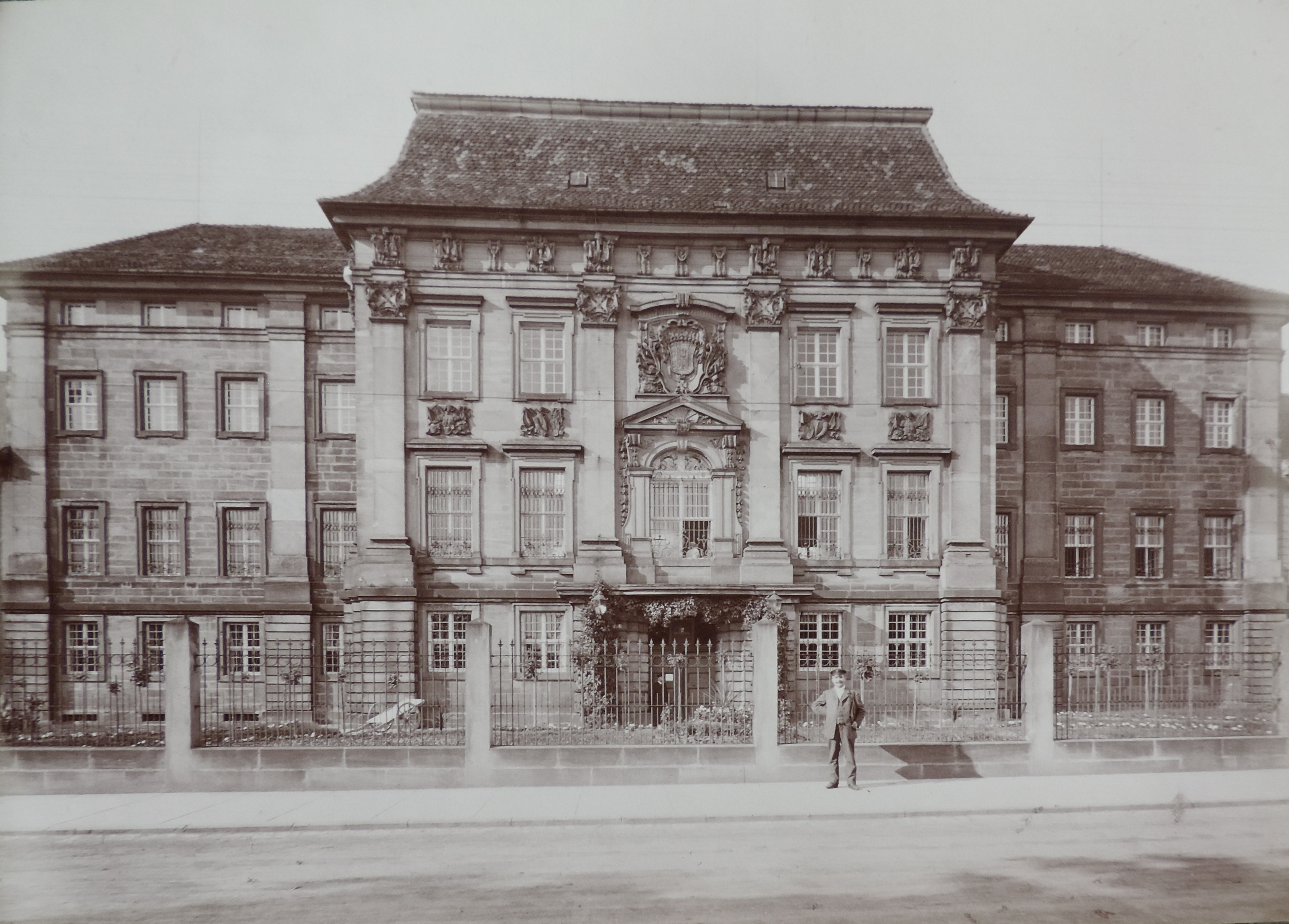 Views and photos of Bayreuth, Germany, gifted to Ferdinand I of Bulgaria to commemorate his 25-year rule. A former summer castle from 1725.